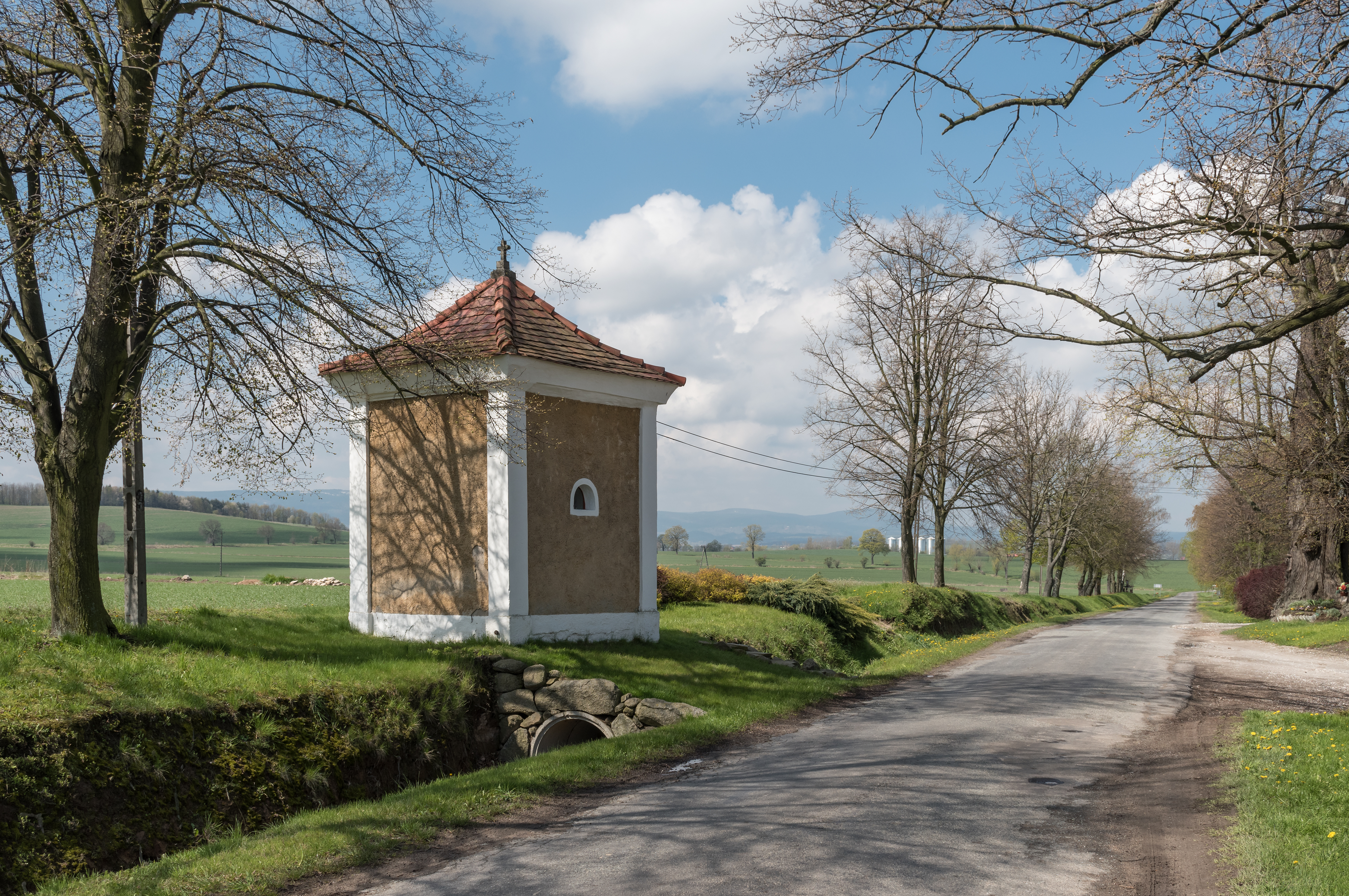 Wayside chapel in Marcinów